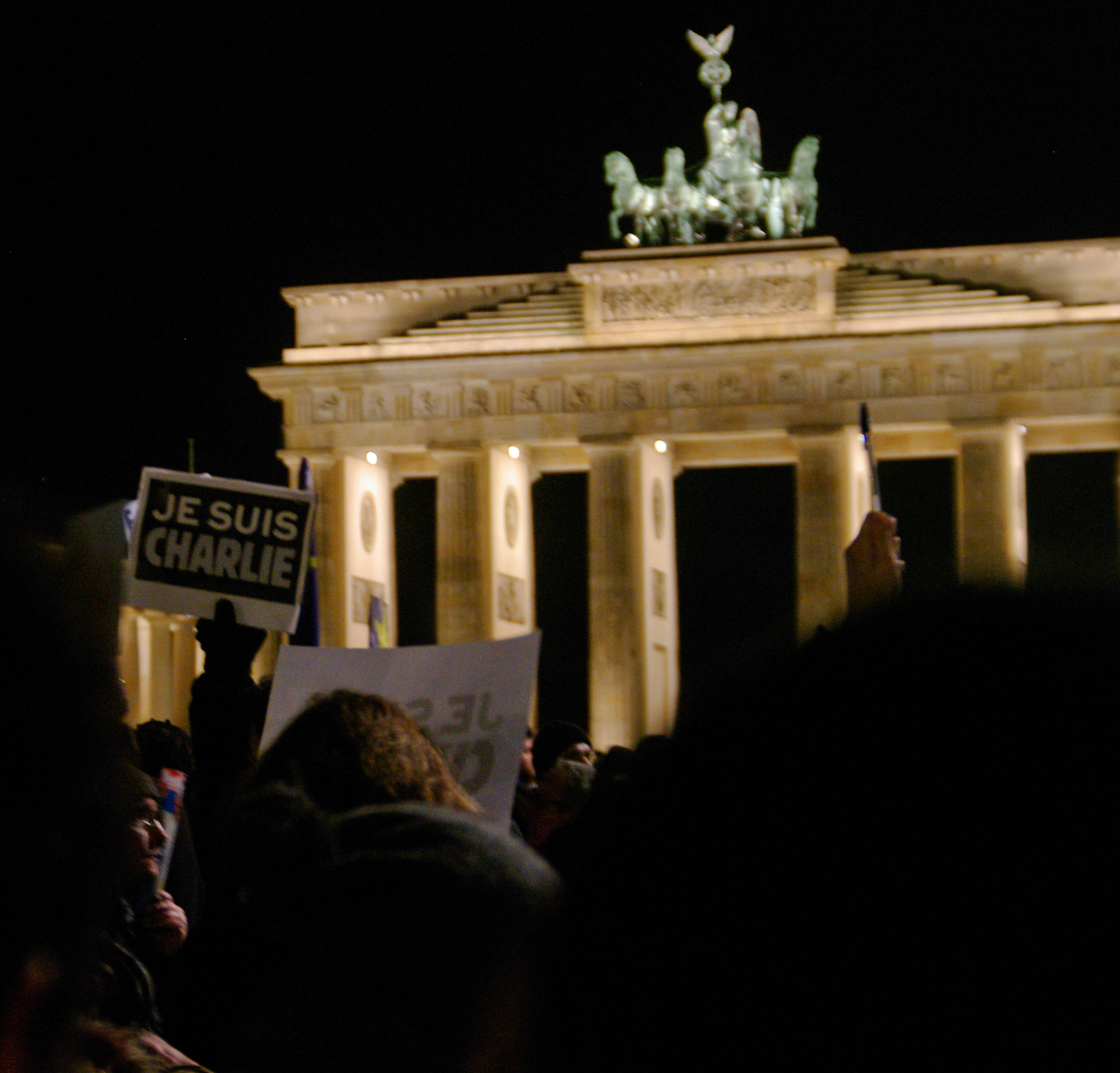 Berlin rally in support of the victims of the 2015 Charlie Hebdo shooting